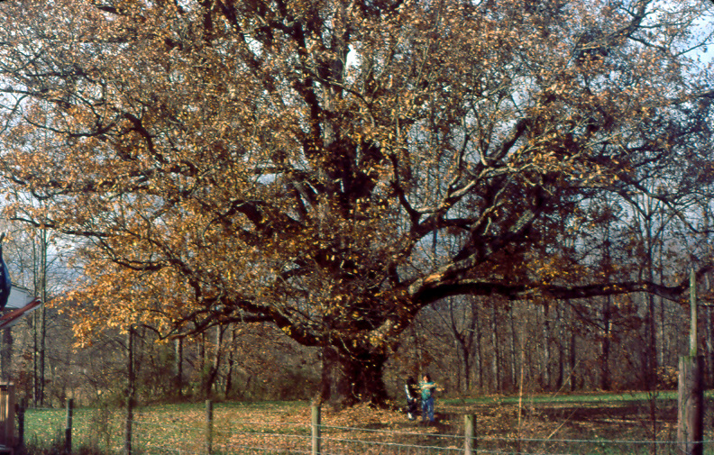 Second-place white oak in Ohio. (This tree is actually almost certainly the first-place white oak. Its second ranking is because the first place was measured almost a decade after this one was measured.)